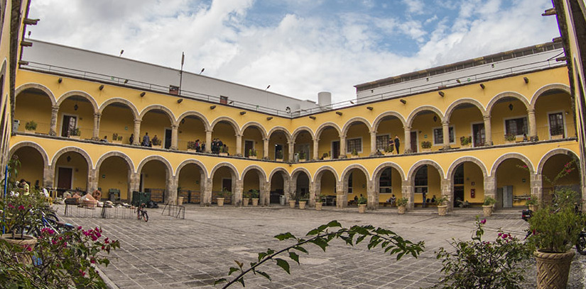 Main Courtyard of the former Santa María de Gracia's cloister